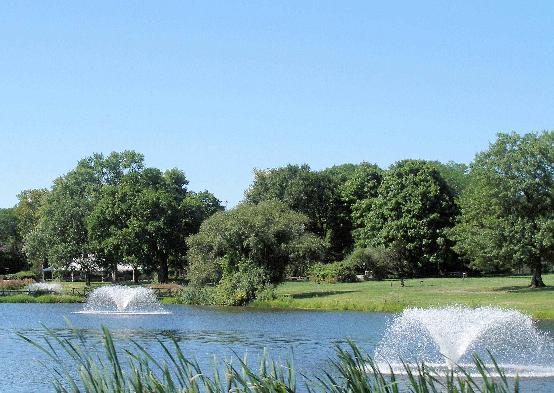 A lake with three fountains in the middle of it, behind Lord and Messick Halls at the headquarters of the Educational Testing Service in Lawrence Township.